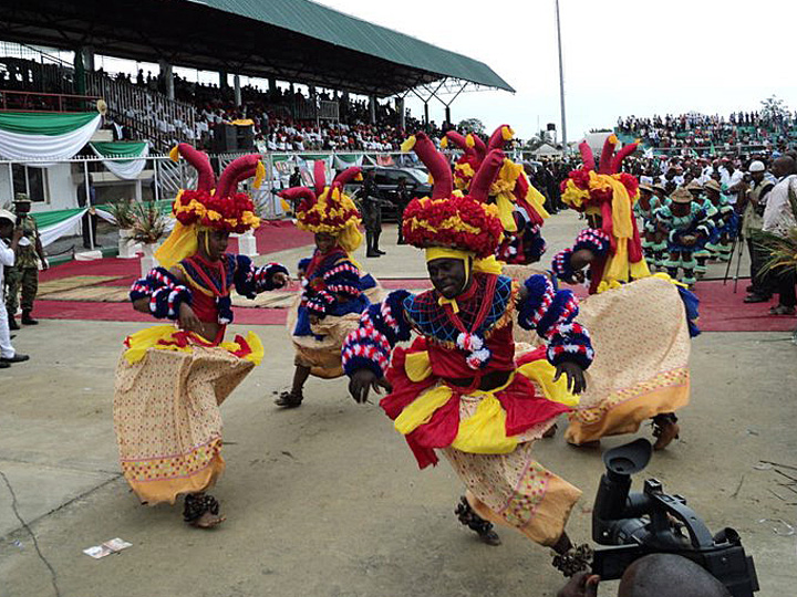 Pictures from the closing ceremony of National Festival of Arts and Culture (NAFEST) 2010 in Uyo, Akwa Ibom state Nigeria. This is an image of Cultural Fashion or Adornment from Nigeria